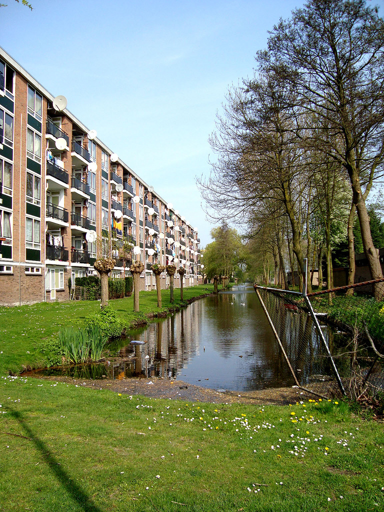 Apartments in Oosterwei, a neighbourhood in Gouda